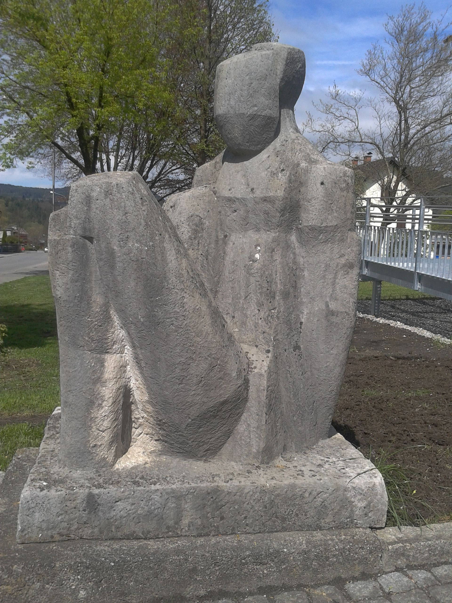 Sculptur from Albrecht Herbert in the front of the Sozialzentrum Frastanz (Vorarlberg)